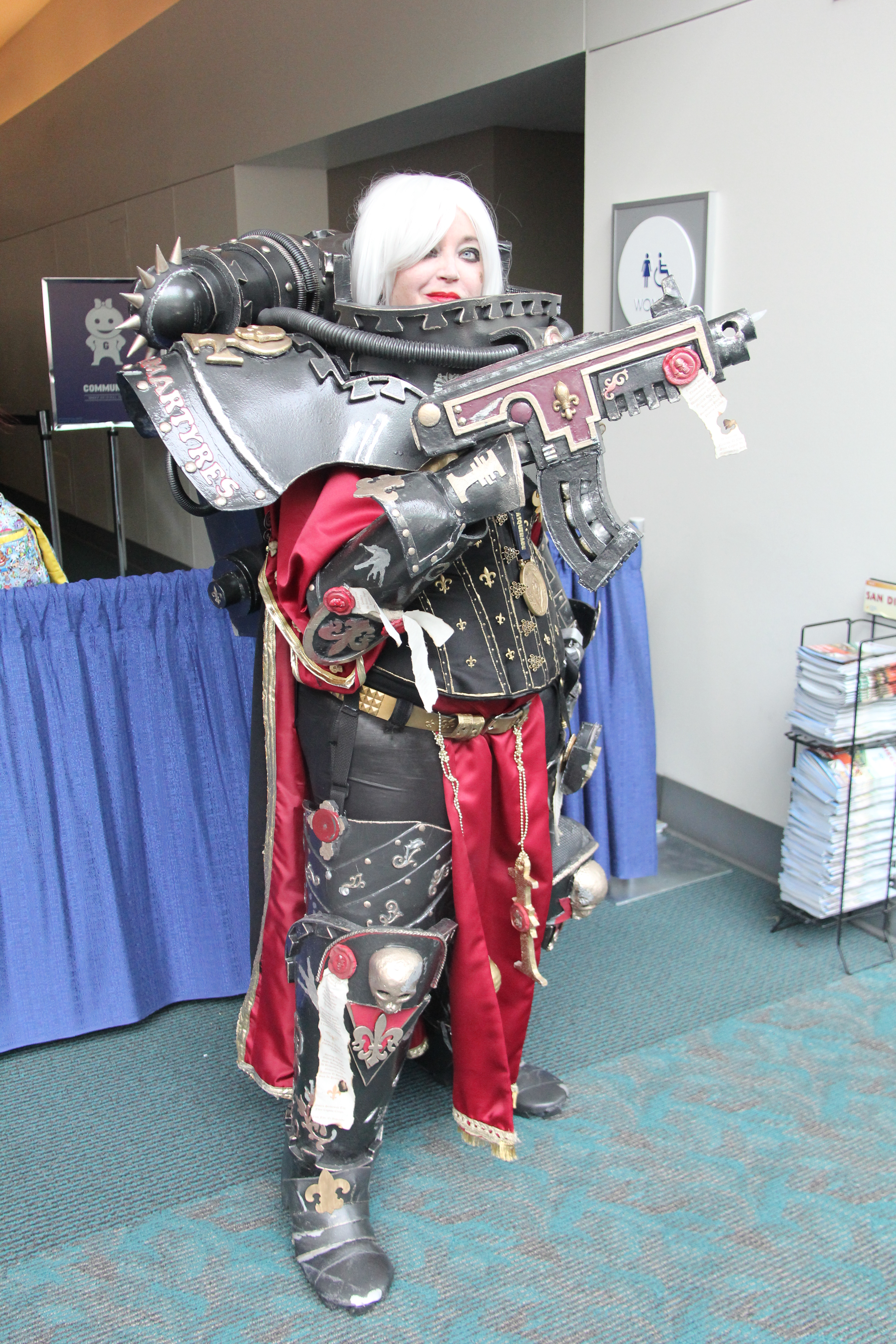 A cosplay of Adepta Sororitas from Warhammer 40k Cosplay at San Diego Comic-Con (SDCC 2014).